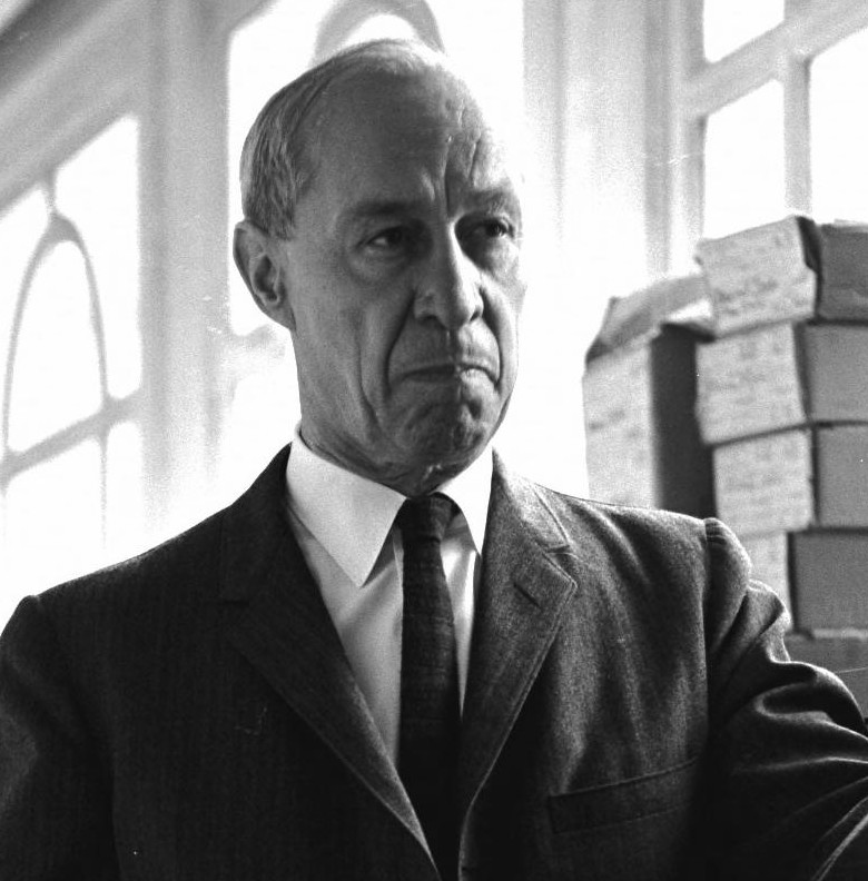 ISR in its 16th year has its own nationwide survey team of professional interviewers. Dr. Rensis Likert ISR Director seeks out research data in a bank of filing cabinets containing two million punch cards, less than a year's supply for ISR